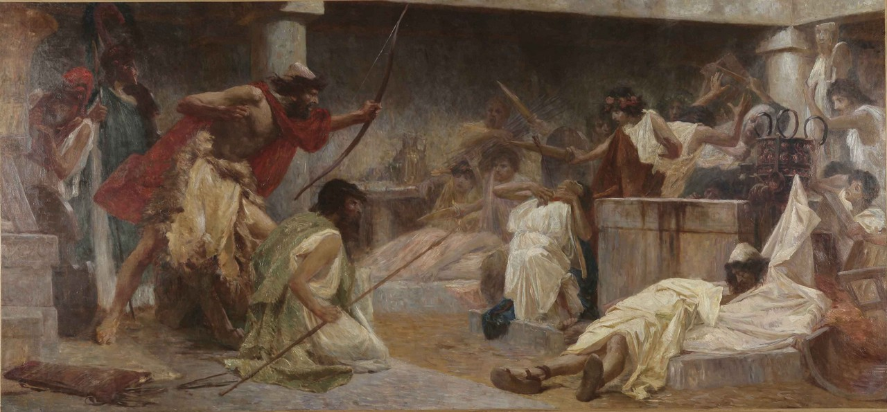 Odysseus Kills the Suitors (version without glare)